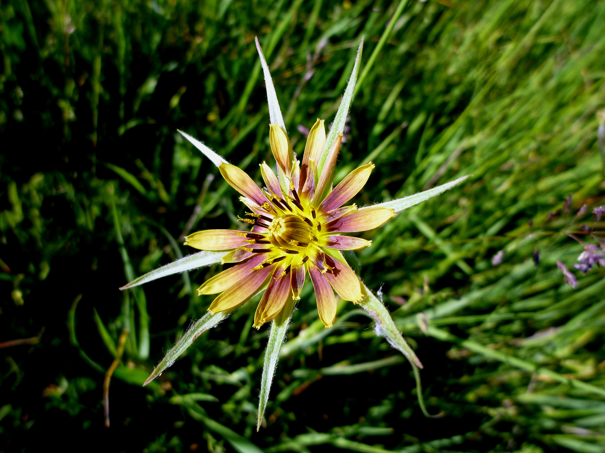 Tragopogon porrifolius. In Muntanya d'Alinyà (Alt Urgell-Catalunya). To 1.660 m. altitude